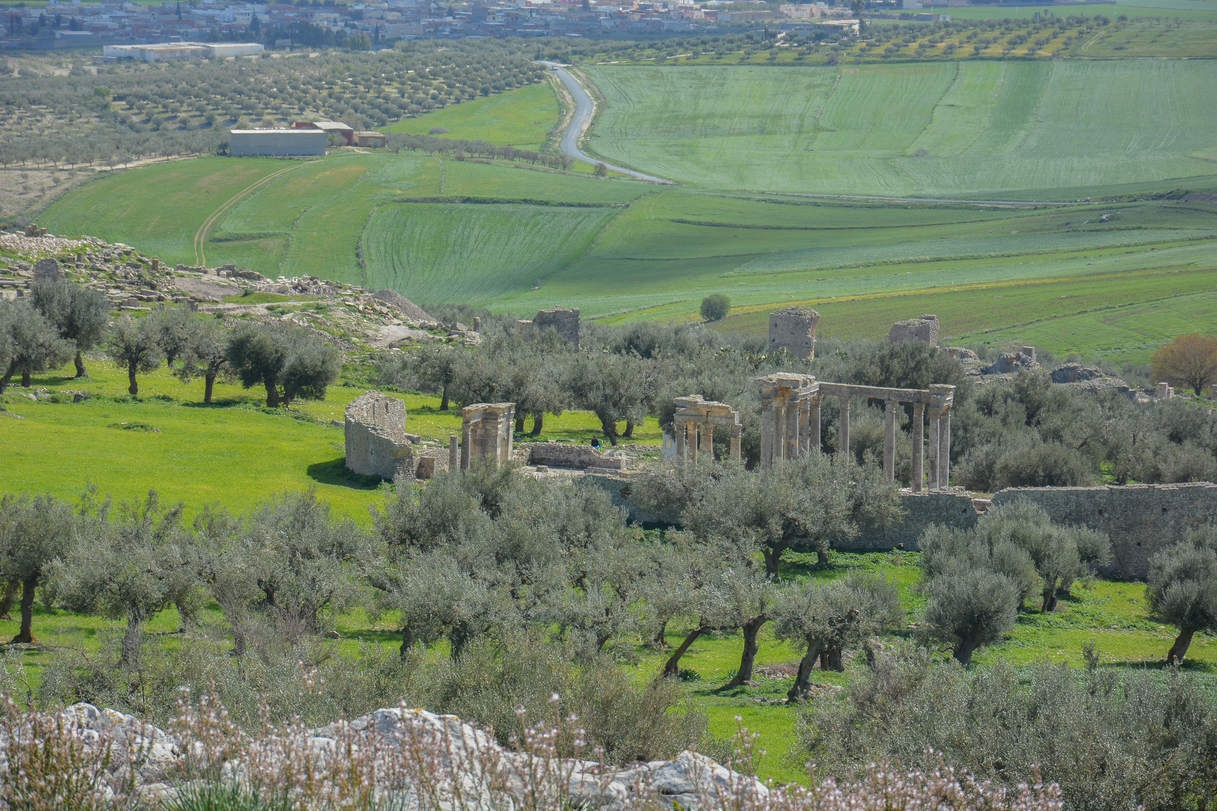 Ruins in Thugga, in the background the new village of Dougga in the valley near the road N 18 to Téboursouk in the North (= left).